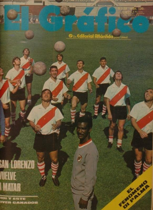 Didi as River Plate coach